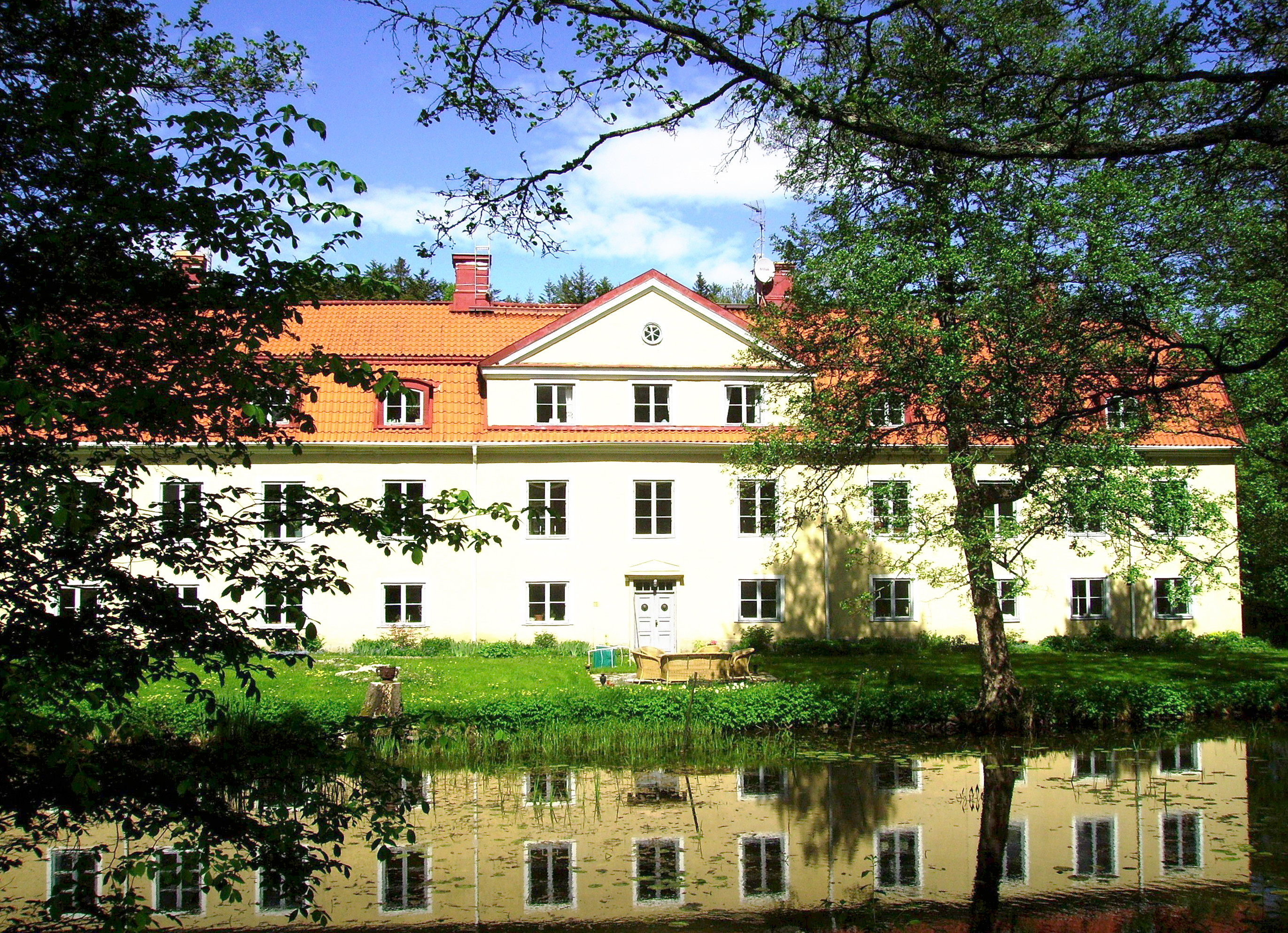 Picture of Ehrendal in Gnesta